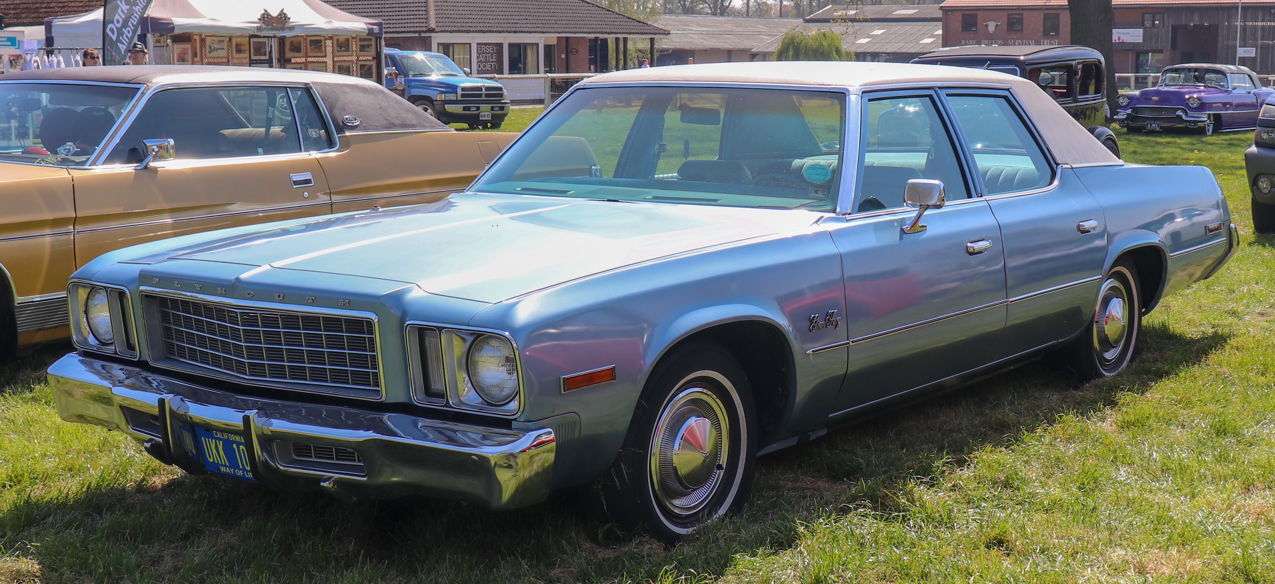 1977 Plymouth Gran Fury 5.9 Front Taken at the Midlands Auto Fest 2019 NAEC Stoneleigh, Stoneleigh, Coventry